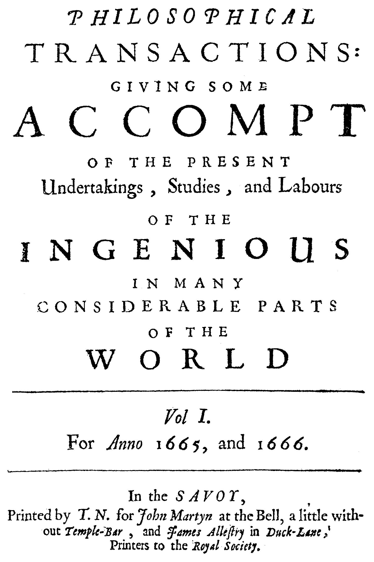 Title page of Philosophical Transactions of the Royal Society, Vol. I.